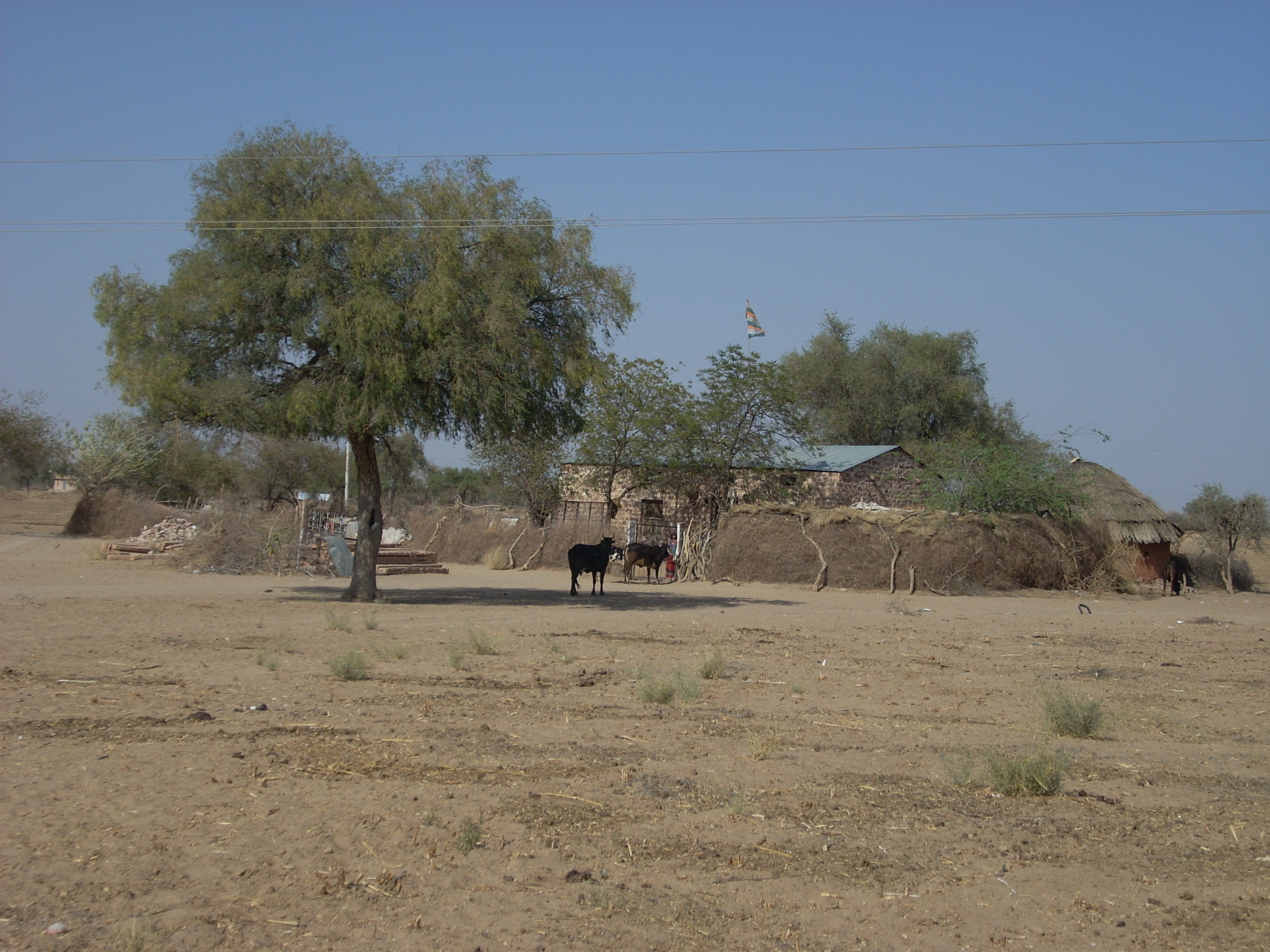 Dhani, the smallest village unit, of Rajasthan, India